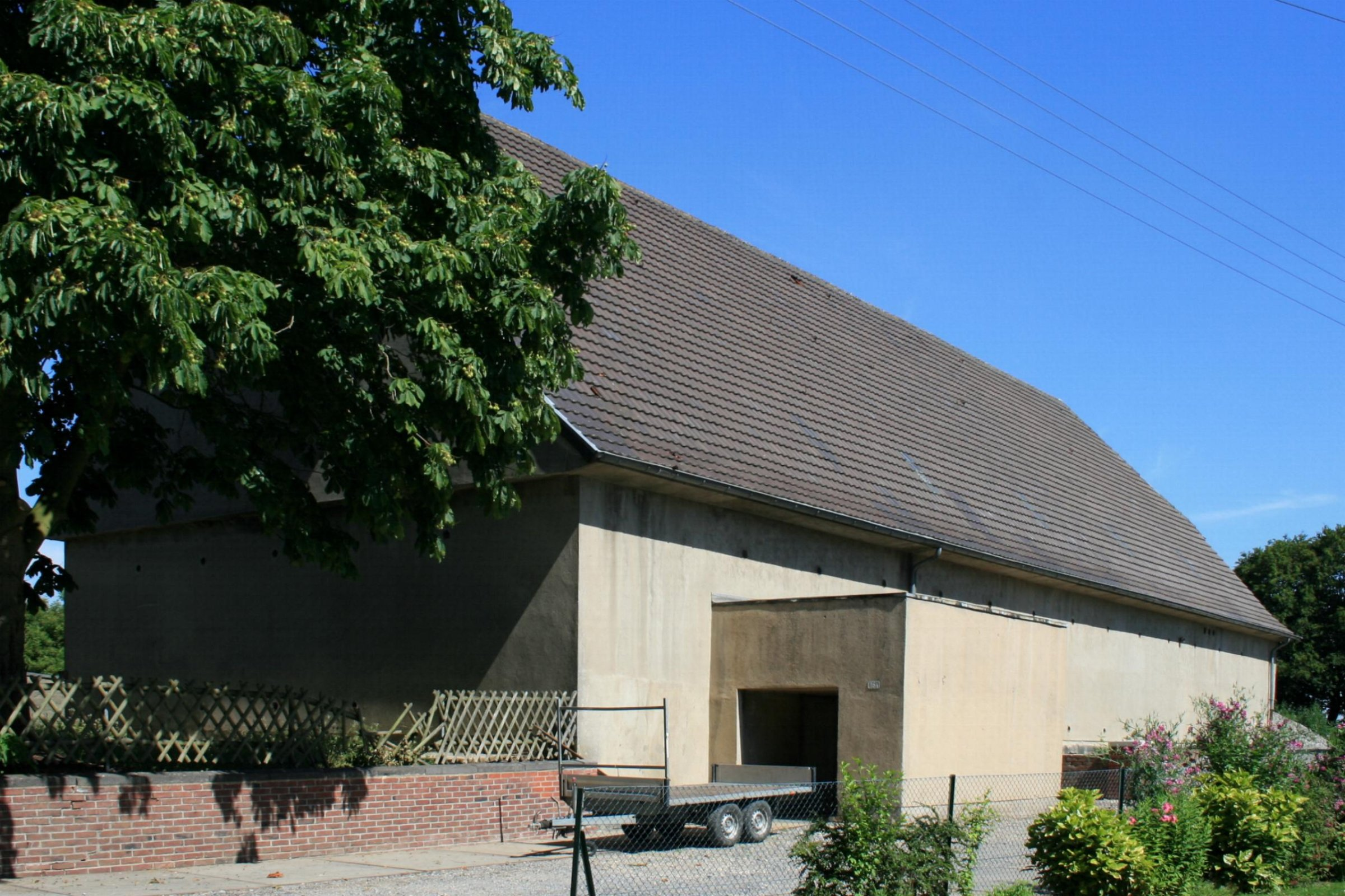 Cultural heritage monument No. B 171 in Mönchengladbach